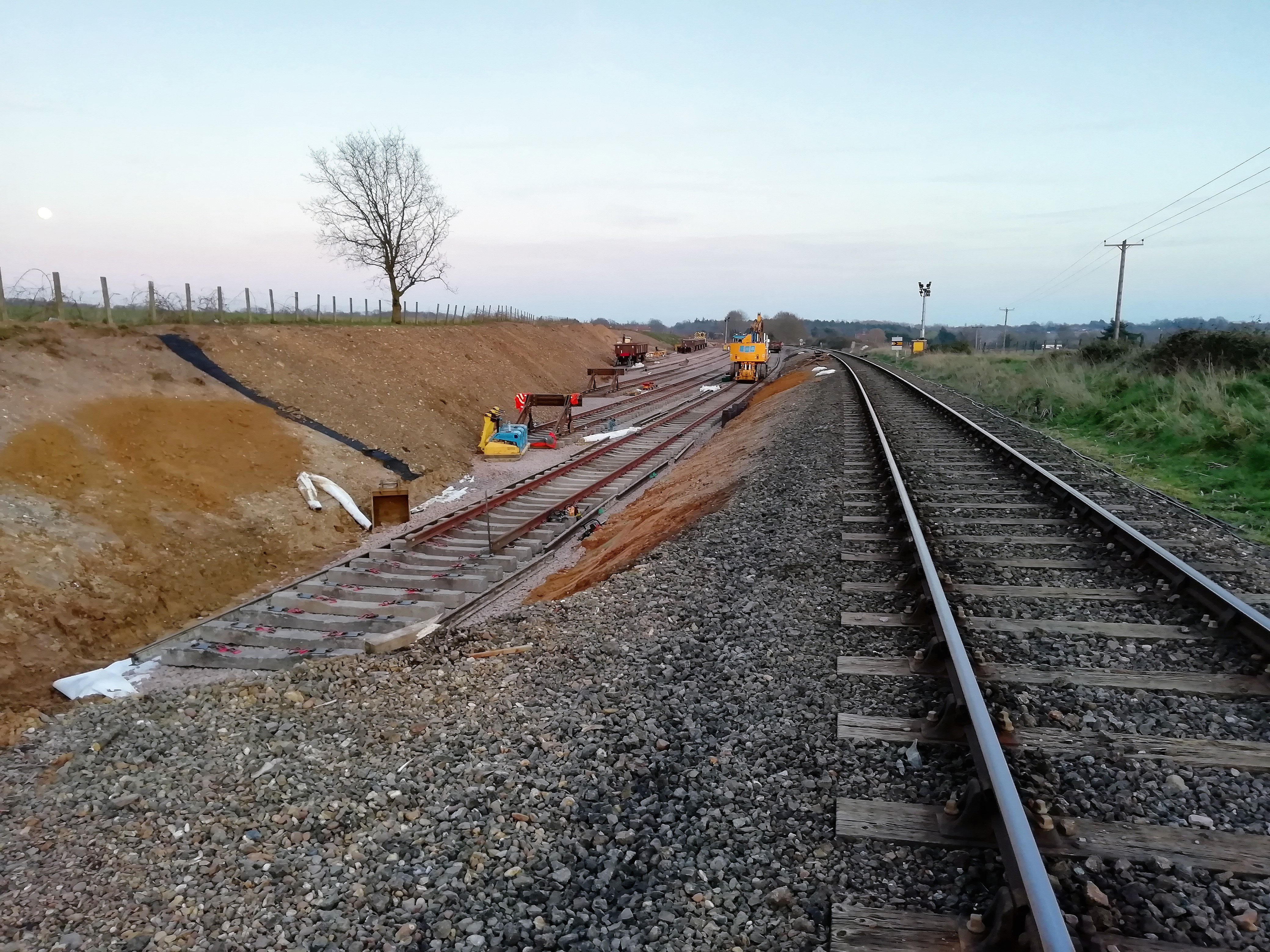 The new Ballast Pit Yard, Kimberley, Norfolk, nearing completion in March 2019.